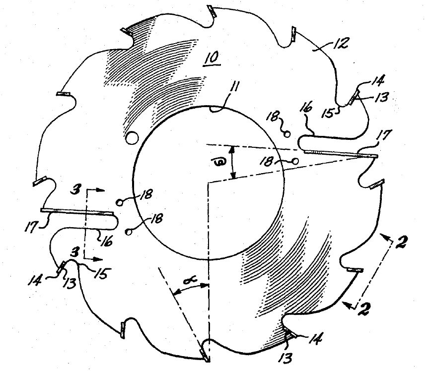 Diagram of Strob Saw Blade as illustrated in US Patent 3563286